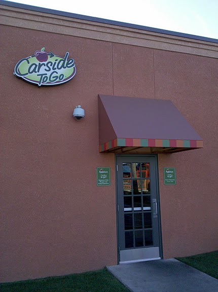 La Habra, California location